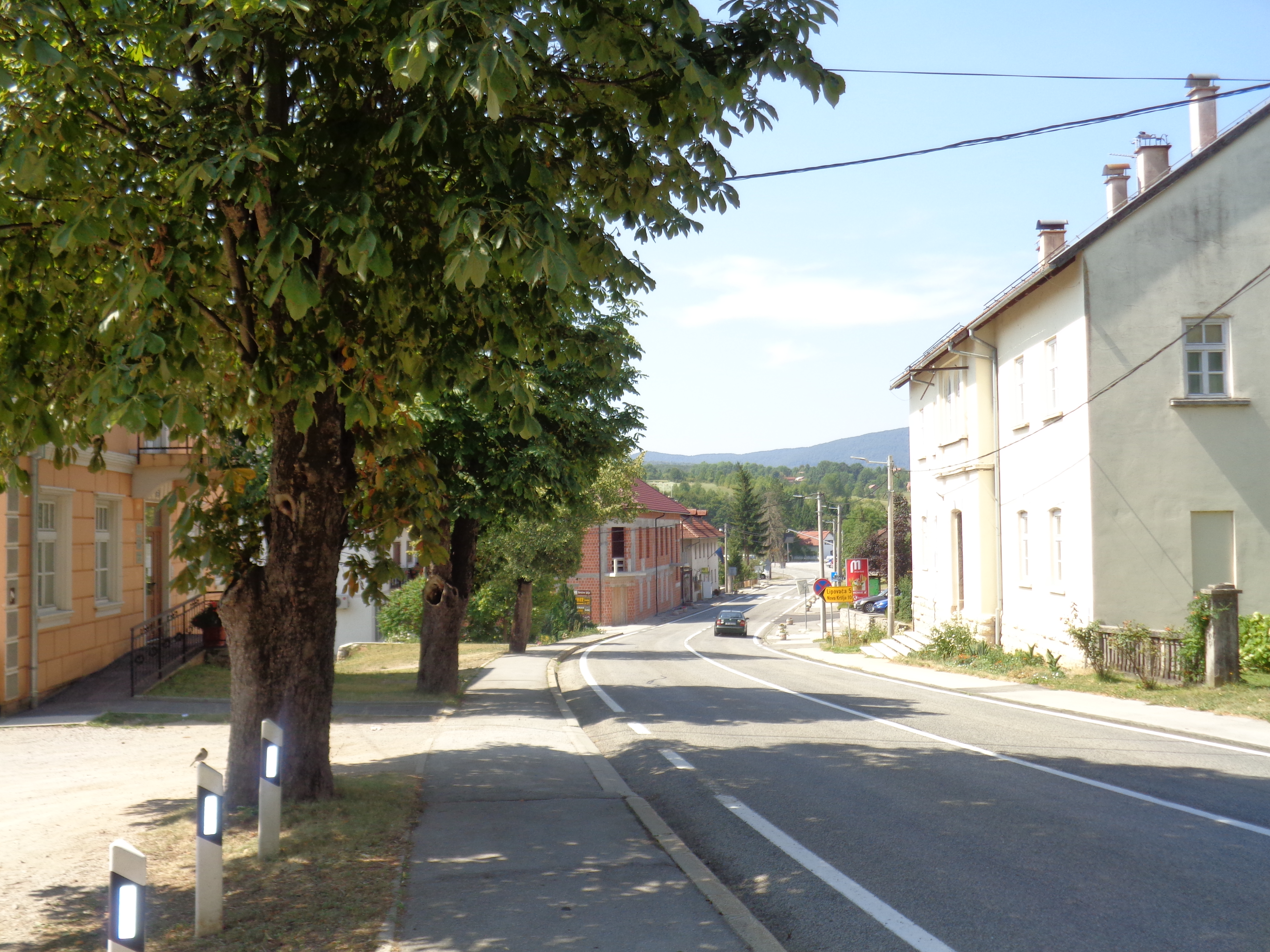 Rakovica, Karlovac County, Croatia - street in the village centre